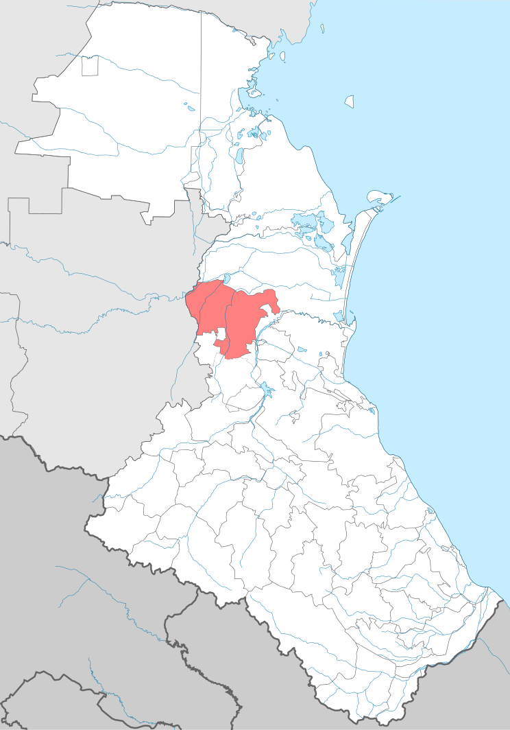 Khasavyurtovsky district. Locator Map of Dagestan (Russia)